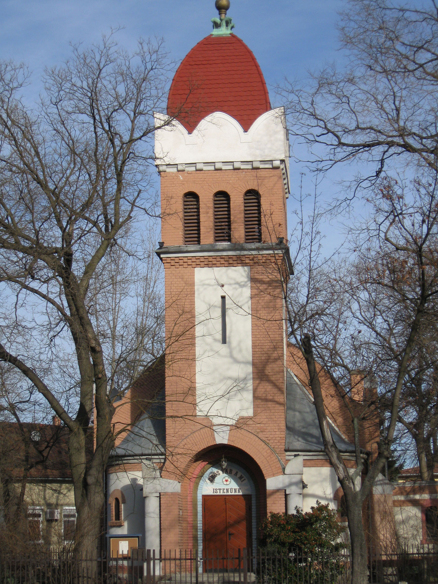 Pestújhely-Újpalota Lutheran Church - 1158, Budapest, Templom square 10., Hungary